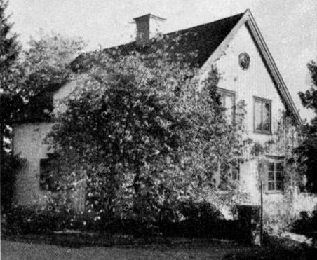 Bergviksvägen 37, Smedslätten, Bromma. Ägare: Axel Dahlberg, fastighetsdirektör. Byggnadsår: 1922. Byggd av ägaren själv med AB Träkol som entreprenör.